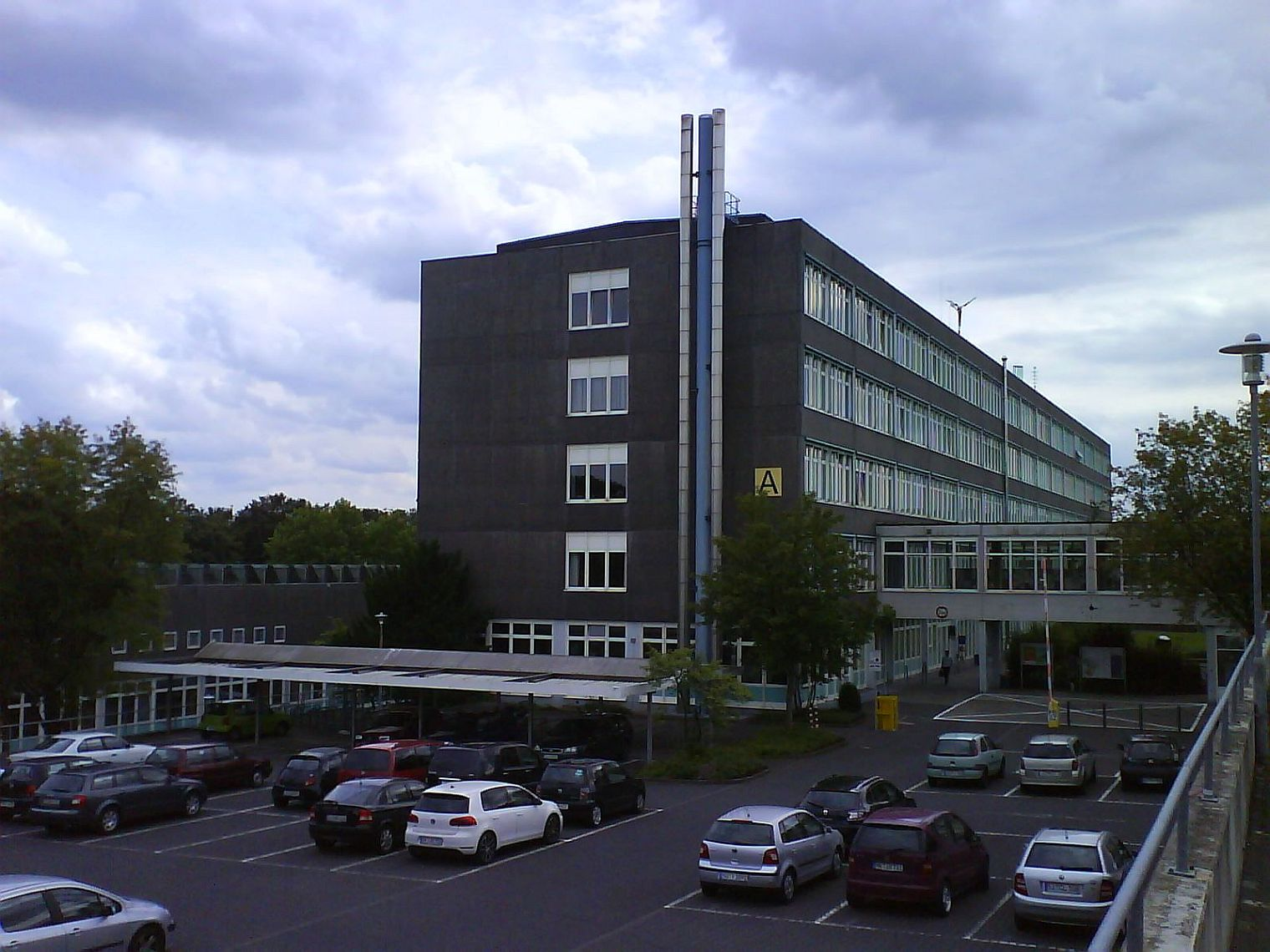 University of Siegen, Siegen, Germany/ Paul-Bonatz-Campus